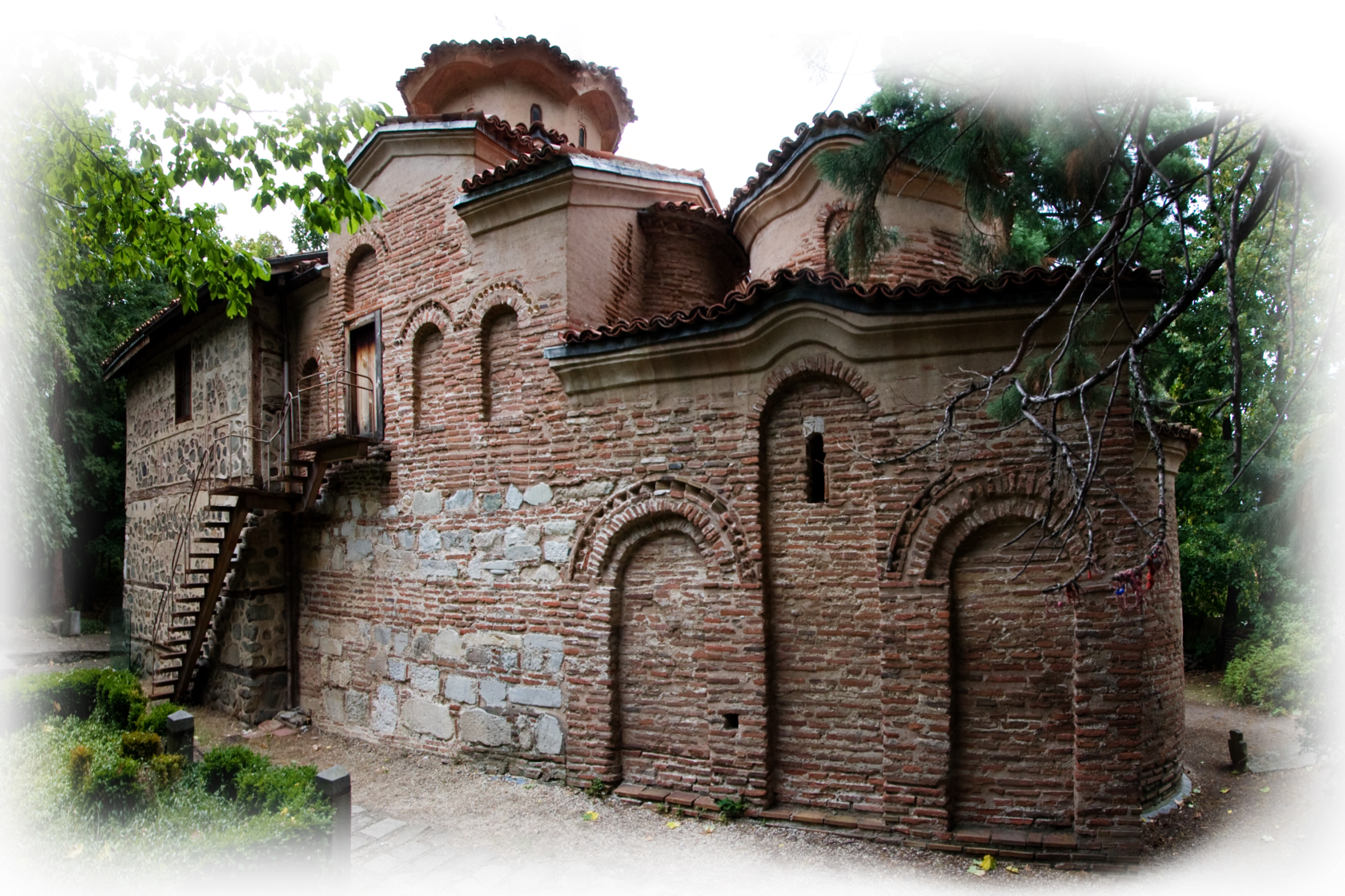 The Boyana Church (Unesco World Heritage Site) located at the foot of Vitosha Mountain (the outskirts of Sofia), Bulgaria.